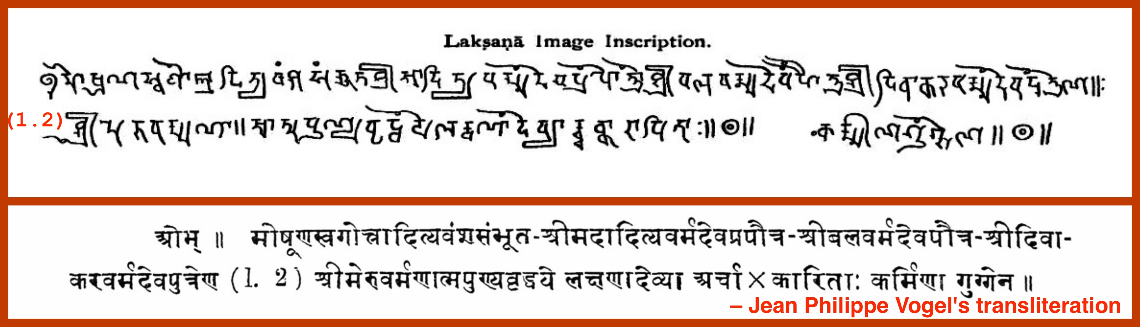 The inscription is found below the Lakshana Devi (Durga) statue in the 7th-8th wooden temple in Himachal Pradesh. The top part is inscribed. The lower part is a transliteration of the inscription by Vogel. Note that (1.2) is added to identify the line numbers, and is not part of the inscription. This is a photograph from plates of the 7th-century inscription published by J. Ph. Vogel in 1911, which qualifies it as PD-Art. Any rights I have, I herewith donate to wikimedia under Creative Commons 4.0.